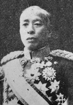 Mitsuaki Tanaka (1843–1939)